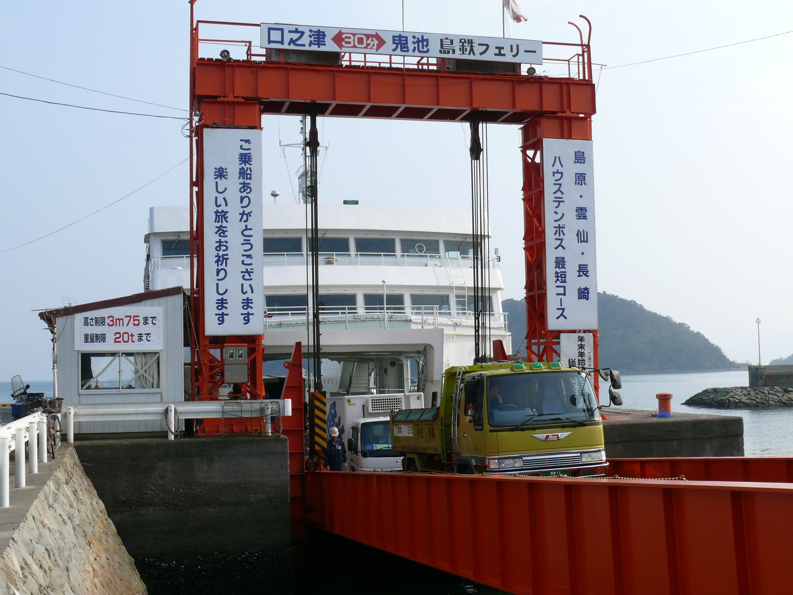 Shimatetsu Ferry Oniike Port.(Japan,).